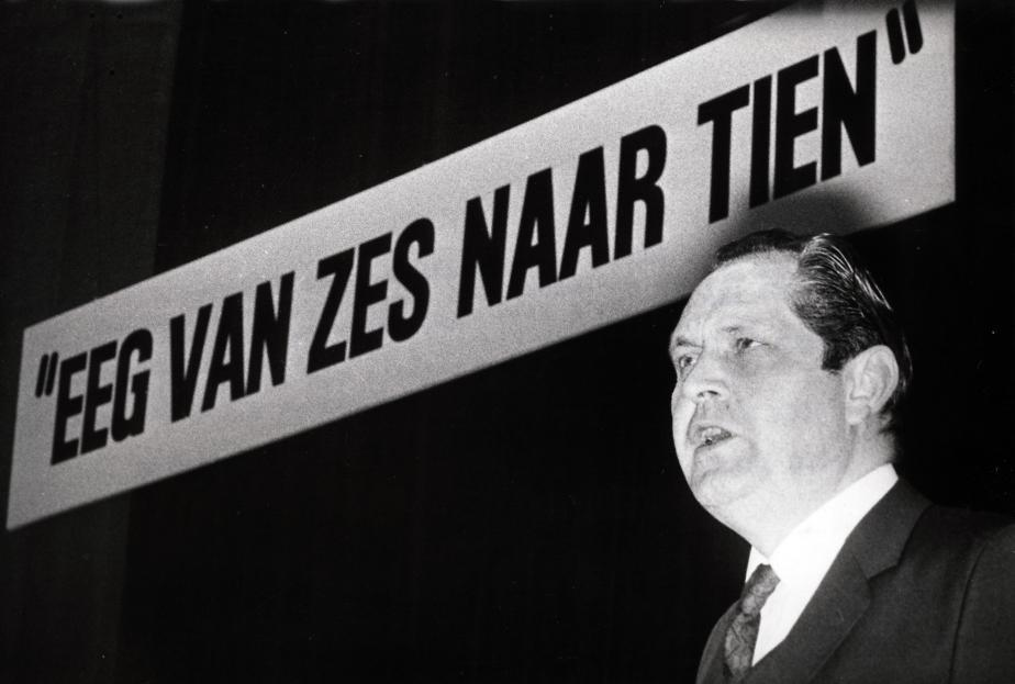 Minister of agriculture and fishery ir. P.J. Lardinois (KVP) during a congress of the central Council of trade promotion. Amsterdam, the Netherlands, 2 December 1971. The sign reads "EEC of six to ten".